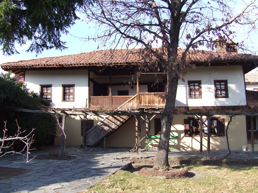 Bulgarian revolutionary Rayna Knyaginya's house in the Bulgarian town of Panagyurishte